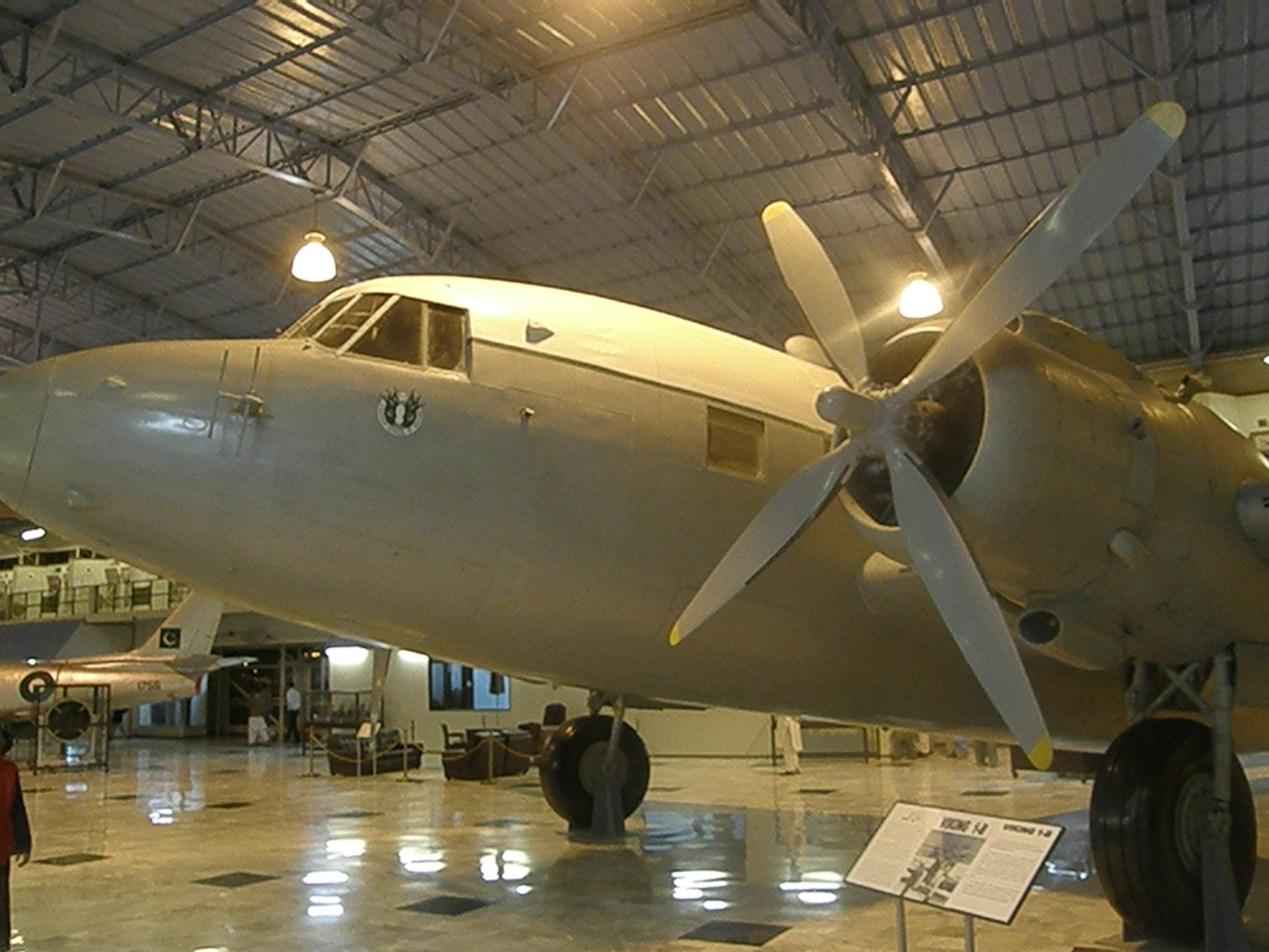 The Viking 1B used to transport Mohammad Ali Jinnah during his role as Governor General of Pakistan, now on display at the PAF Museum, Karachi.